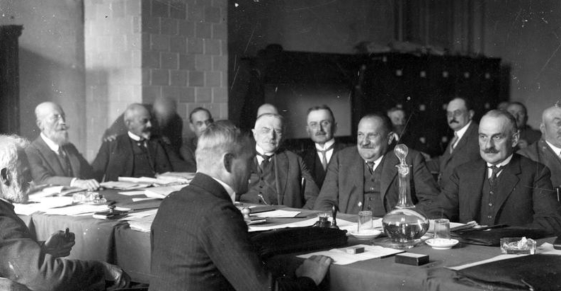 Polish Senate agricultural reform commission meeting. Sen. Aleksander Adelman (far right) and Sen. Jan Stecki (second from left)